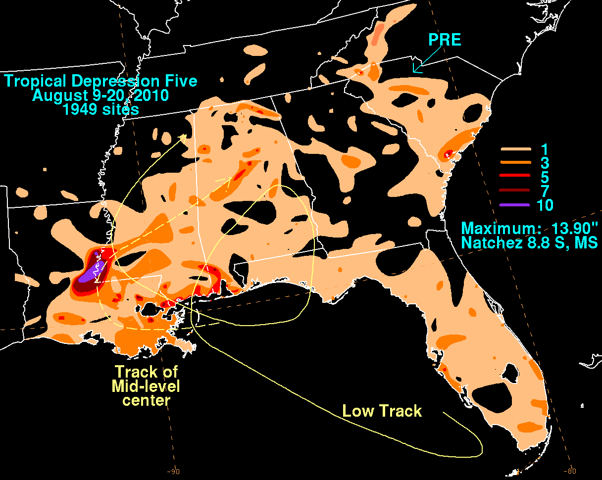 Storm total rainfall map of Tropical Depression Five during August 2010.